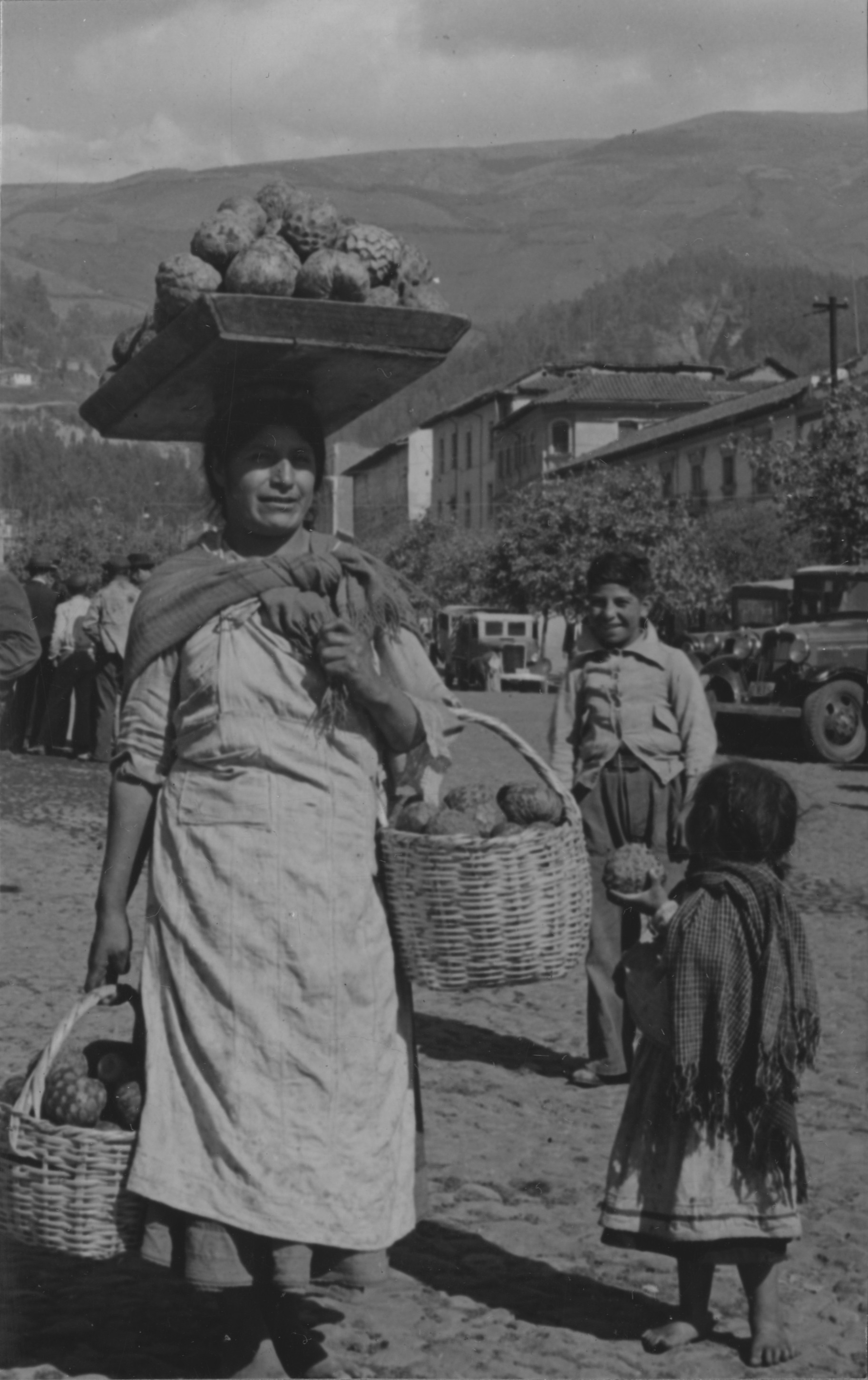 A woman in Quito carrying two baskets and a tray of cherimoyas